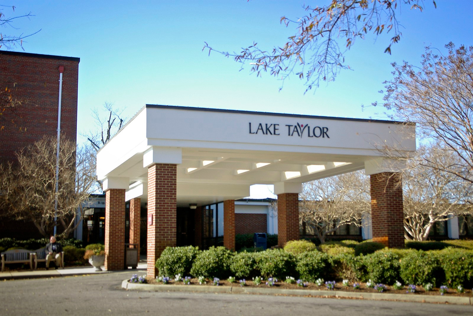 Photograph of the front/main entrance of Lake Taylor Transitional Care Hospital